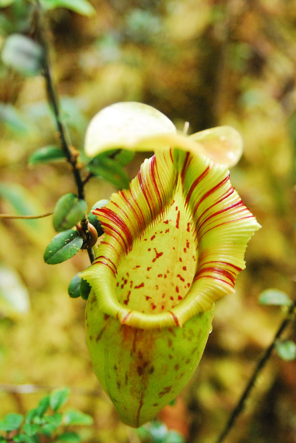 Nepenthes ovata, North Sumatra